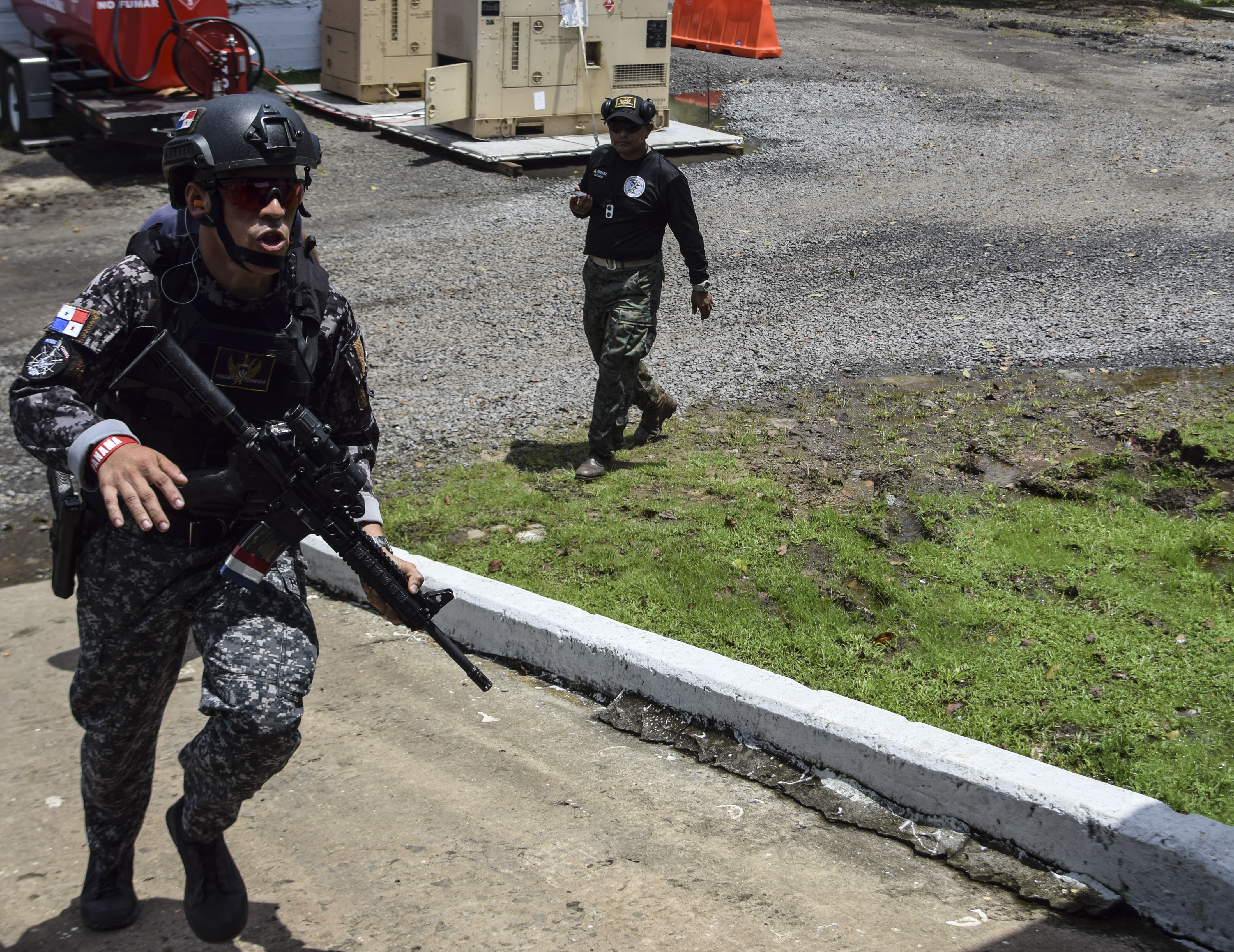 A Panamanian comando runs to assault the range as part of Fuerzas Comando, July 18, 2018 at the Instituto Superior Policial, Panama. Partner nations participating in Fuerzas Comando refine their tactical and technical skills during competition. By increasing their special operation capabilities, countries become more capable of confronting common threats. (U.S. Army Photo by Staff Sgt. Brian Ragin/Released)